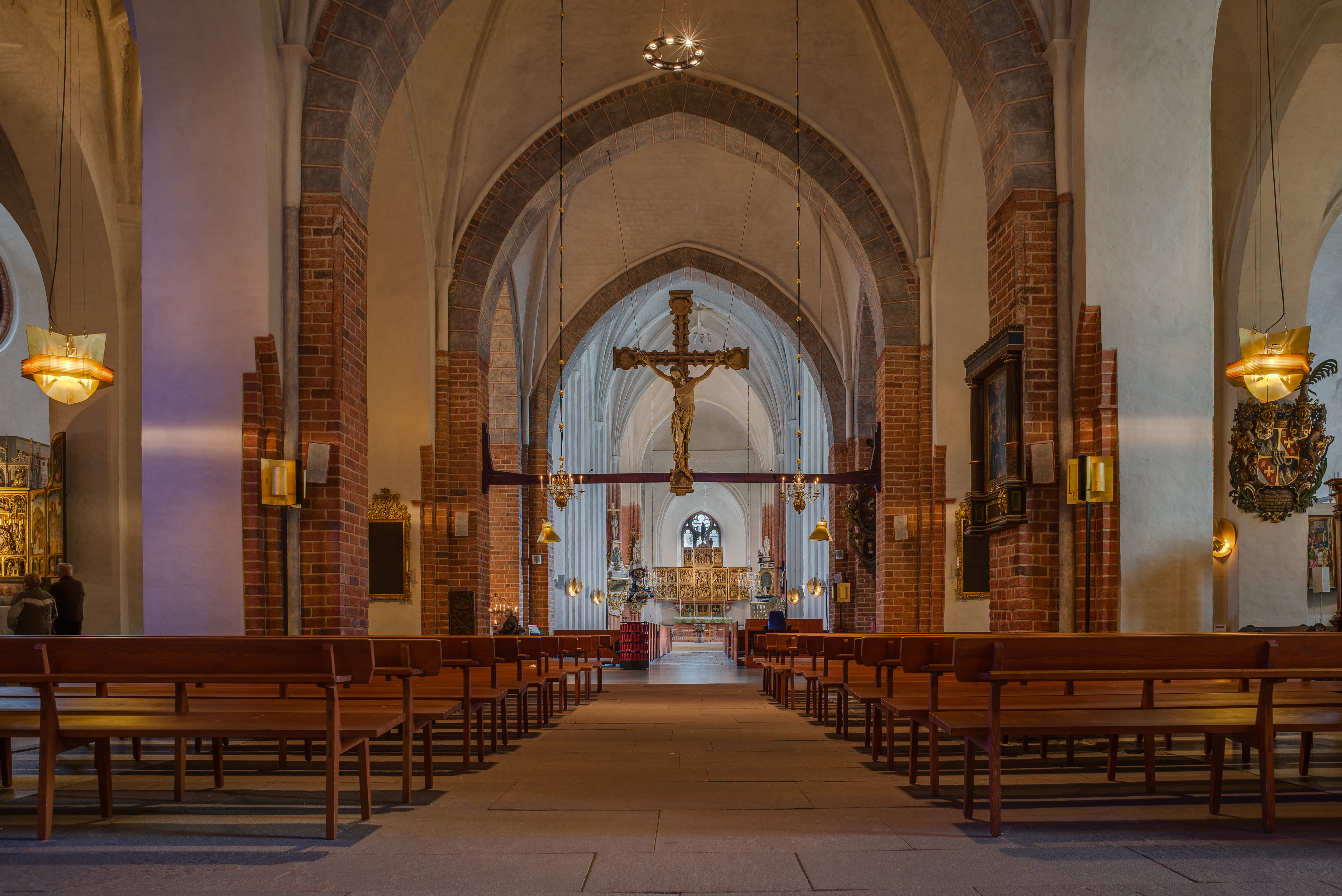 Västerås Cathedral.